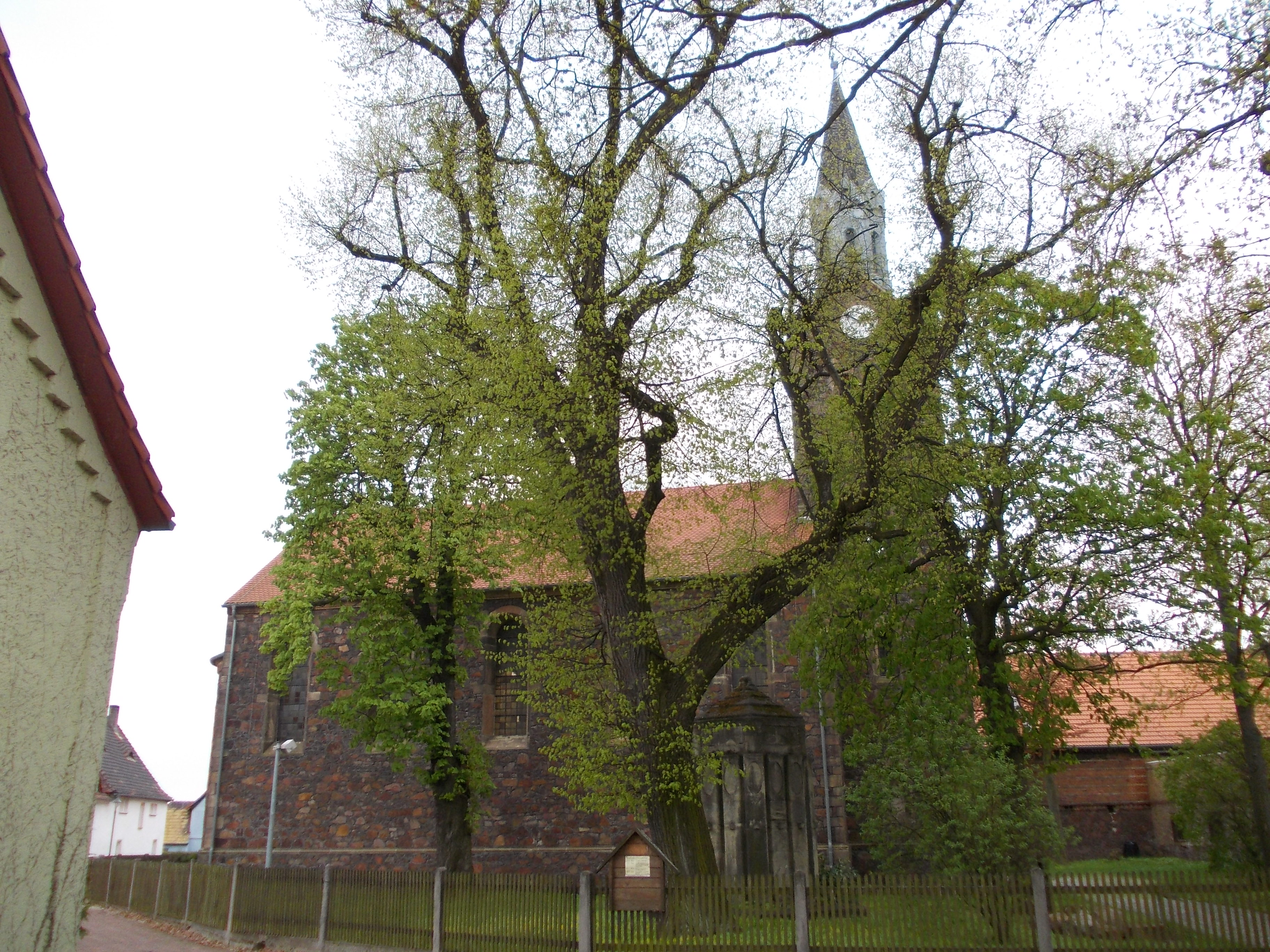 St. Ursula's Church in Nimeberg (Landsberg/Saalekreis, Saxony-Anhalt)